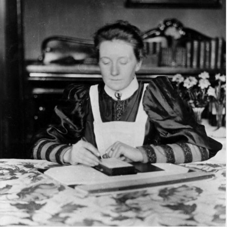 A portrait of British aviation pioneer Ella Pilcher, likely taken at the home she shared with her brother Percy Pilcher in Glasgow, around 1895. Photographer and exact date unknown. Via Philip Jarrett.